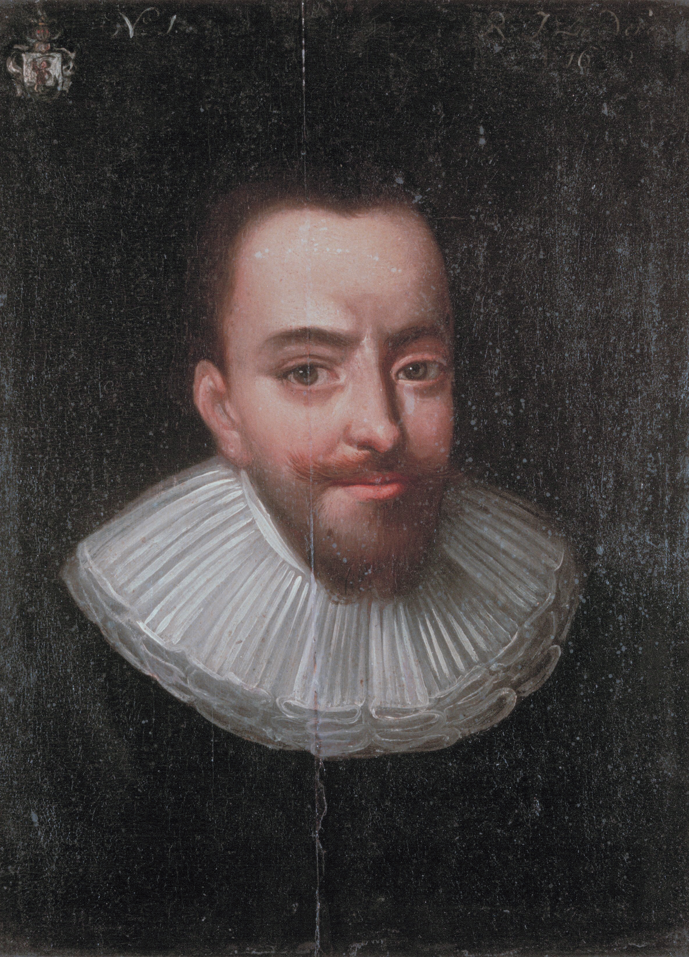 Richard Jean de Neree (1579- ) oil on panel 39 x 31 cm inscribed t.r.: R.J. de Neree / 16.. 1625 - 1649